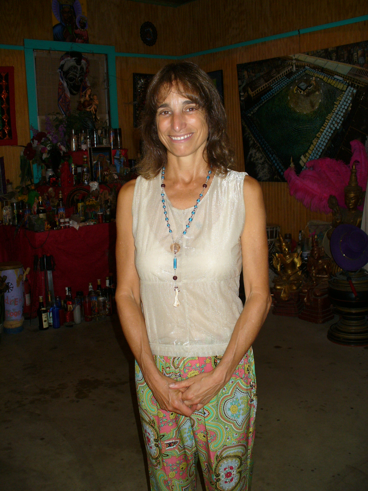 Ms Sallie Ann Glassman in her Temple, well known in New Orleans for her dedication to the practice of Vodou. Her annual ceremonies for protection against hurricanes and crime have received international press coverage.